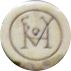 The Symmachus family monogram from a panel of an ivory diptych, dated to the year 402, that depicts the apotheosis of a mortal (probably Q. Aurelius Symmachus himself). Property of the British Museum, temporarily on display at the Art Institute of Chicago. Interlingua: Le cifra del familia de Symmacho ex un pannello de un diptycho in ebore, datate del anno 402, que depinge le apotheose de un mortal (probabilemente Q. Aurelio Symmacho ipse). Proprietate del British Museum, temporarimente exposite in le Art Institute of Chicago.